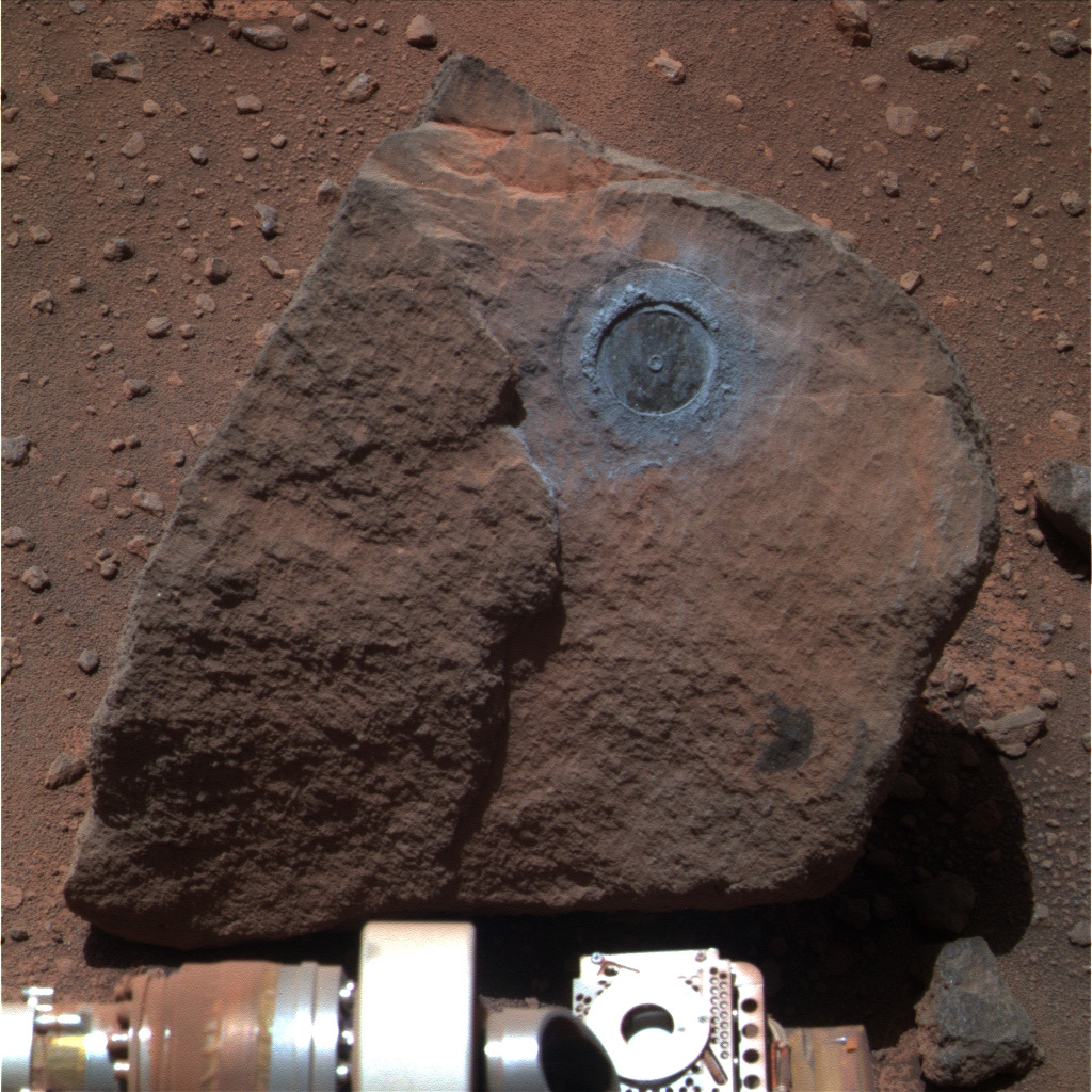 NASA's Mars Exploration Rover Opportunity examined a rock called "Marquette Island" from mid-November 2009 until mid-January 2010. Studies of texture and composition suggest that this rock, not much bigger than a basketball, originated deep inside the Martian crust. A crater-digging impact could have excavated the rock and thrown it a long distance, to where Opportunity found it along the rover's long trek across the Meridiani plain toward Endeavour Crater. This approximately true-color view of Marquette Island comes from combining three exposures that Opportunity's panoramic camera (Pancam) took through different filters during the rover's 2,117th Martian day, or sol, on Mars (Jan. 6, 2010). On the preceding sol, Opportunity's rock abrasion tool brushed dust out of the circular area where that tool had ground into the rock on sols 2100 and 2103 (Dec. 20 and 23, 2009). The dark circle left by the rock abrasion tool's work is approximately 5 centimeters (2 inches) in diameter.